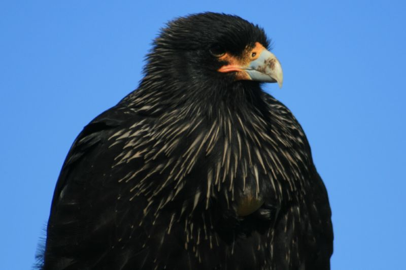 Straited Caracara on Sealion Island, Falkland Islands